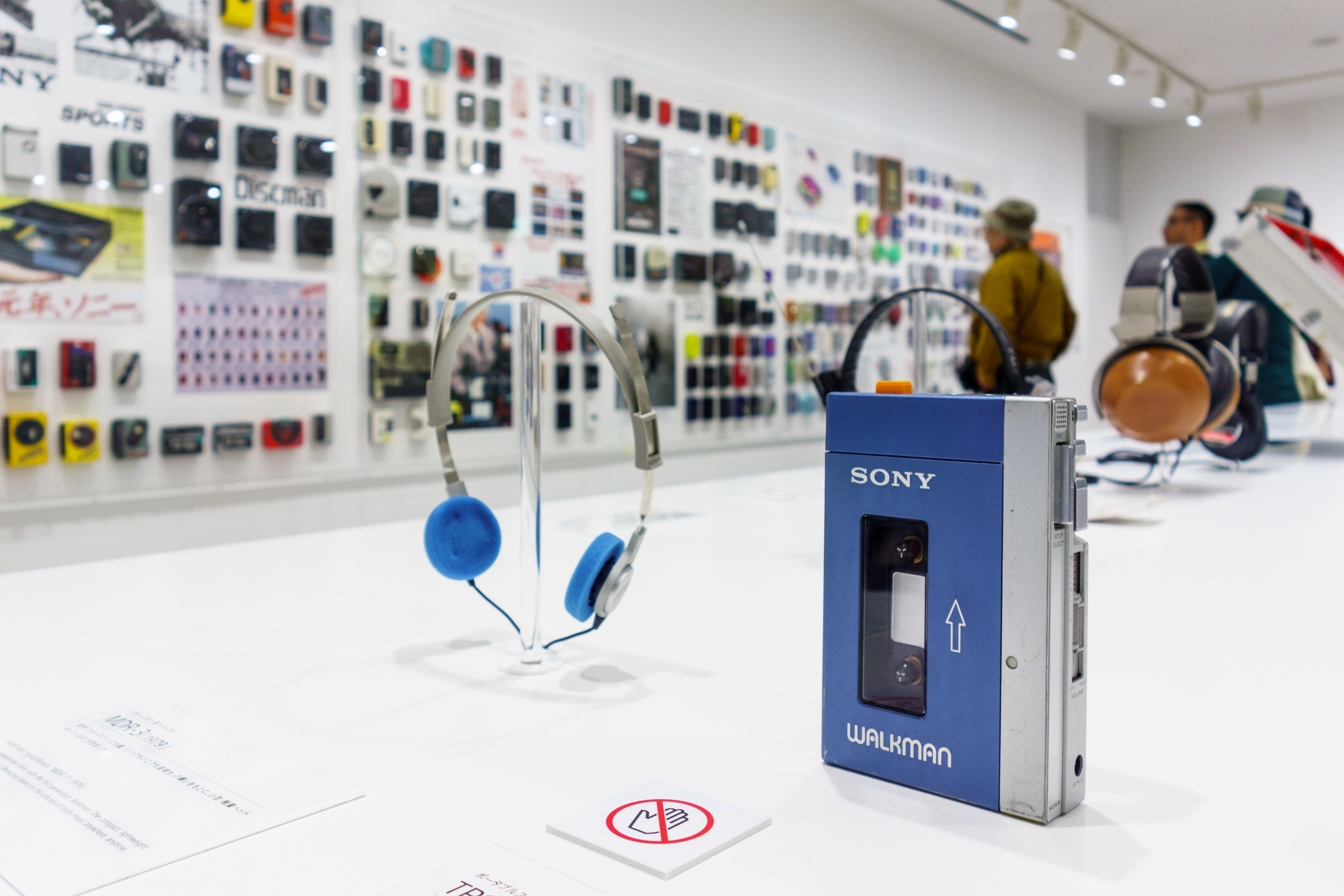 Sony Walkman TPS-L2 at "It's a Sony" Expo in Sony Building at Ginza, Chuo-Ku in Tokyo.